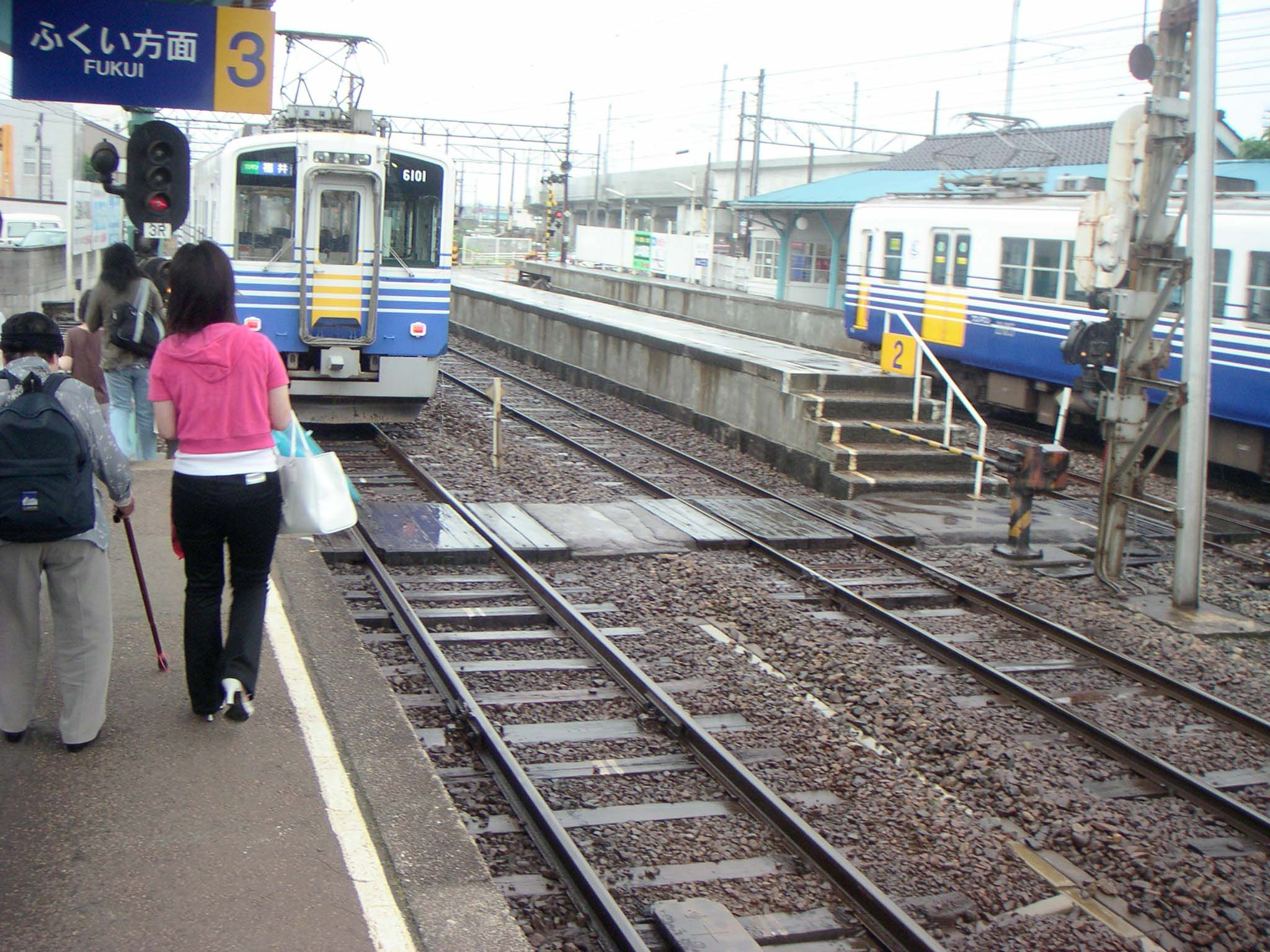 Fukui-guchi Station